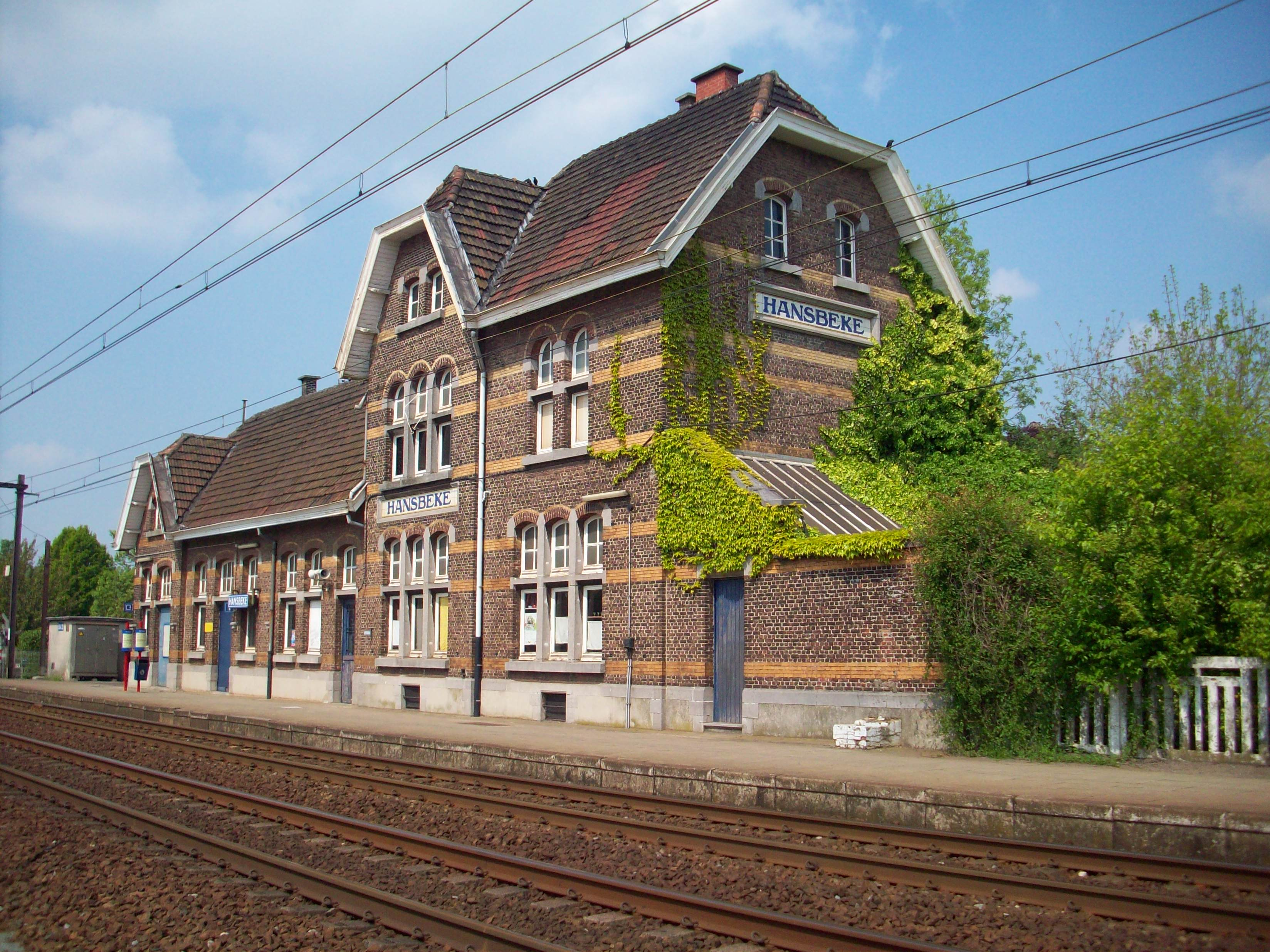 Former station building (railway) of Hansbeke. Architectural heritage. Demolished in the year 2016.